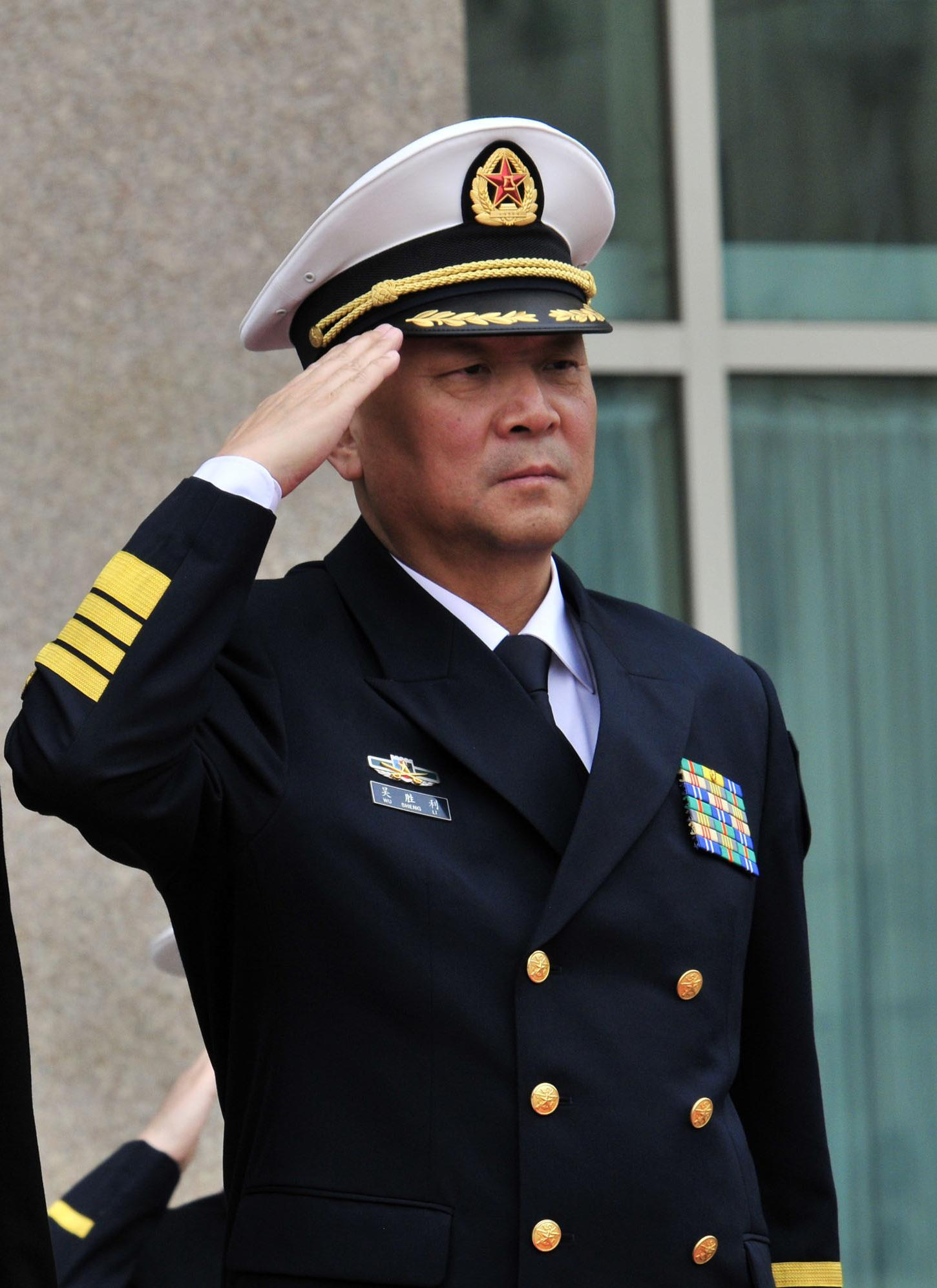 Adm. Wu Shengli, Commander-in-Chief of the People's Liberation Army Navy, renders honors during a welcoming ceremony for Adm. Gary Roughead, United States Chief of Naval Operations, while visiting PLA Navy headquarters in Beijing